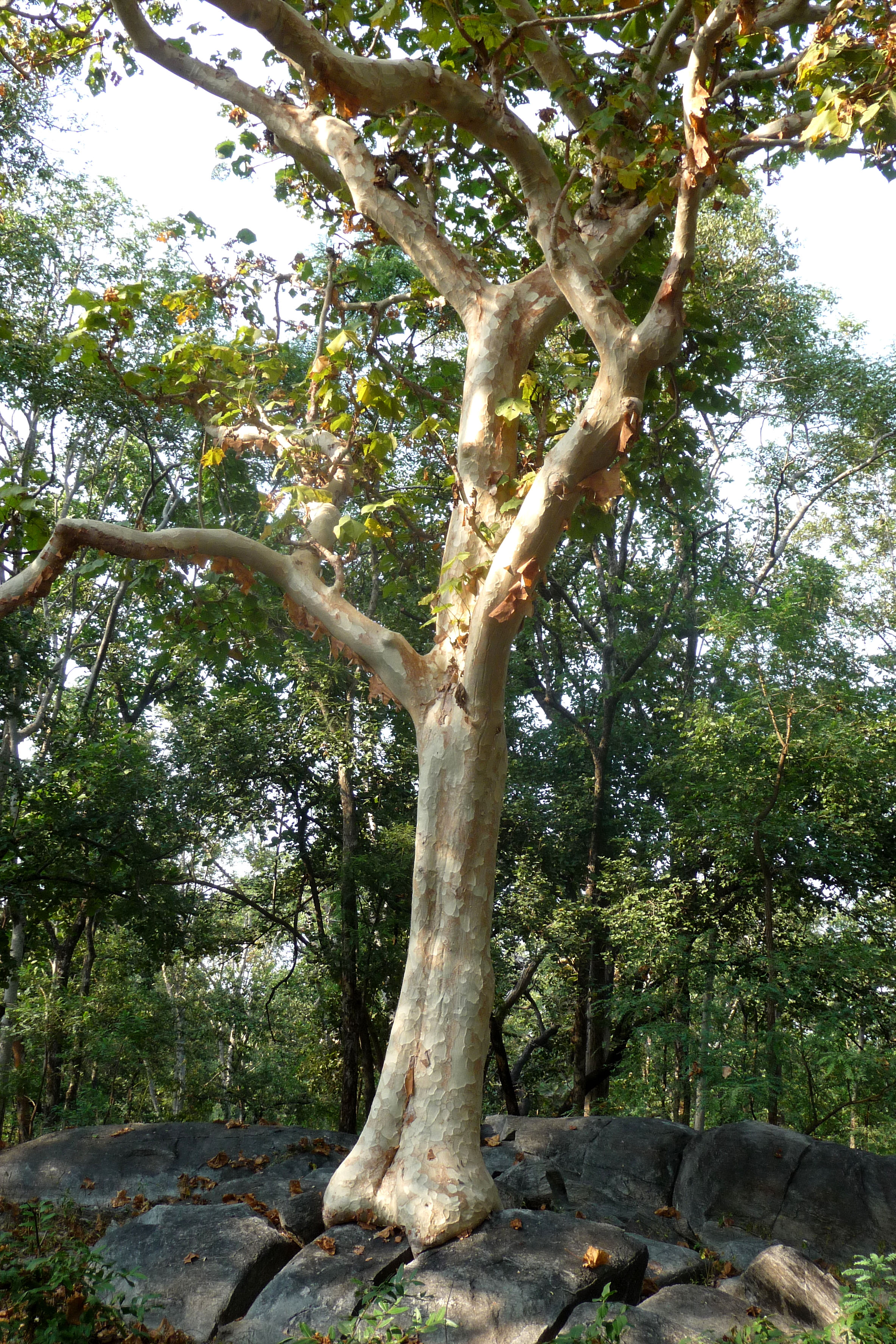 Ghost Tree. Sterculia urens.